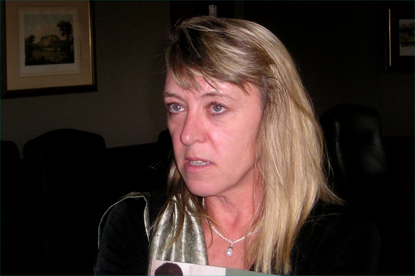 Nobel Peace Prize winner Jody Williams at Quinnipiac University